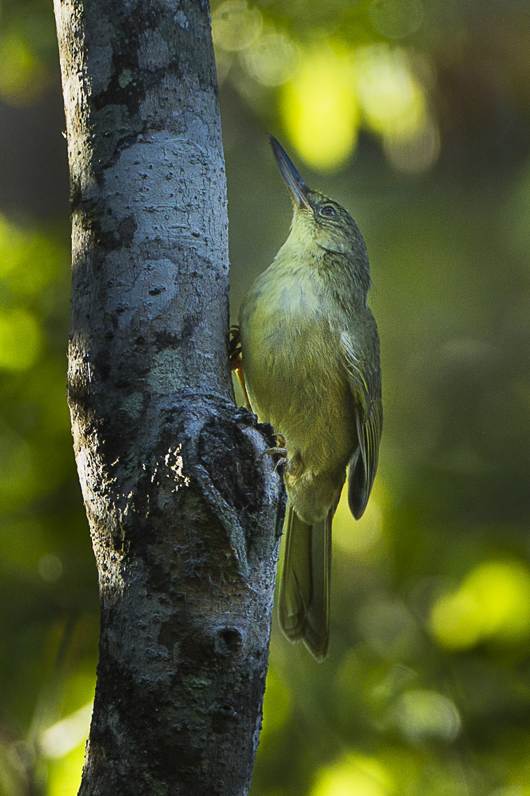 Long-billed Greenbul - Madagascar_S4E9304